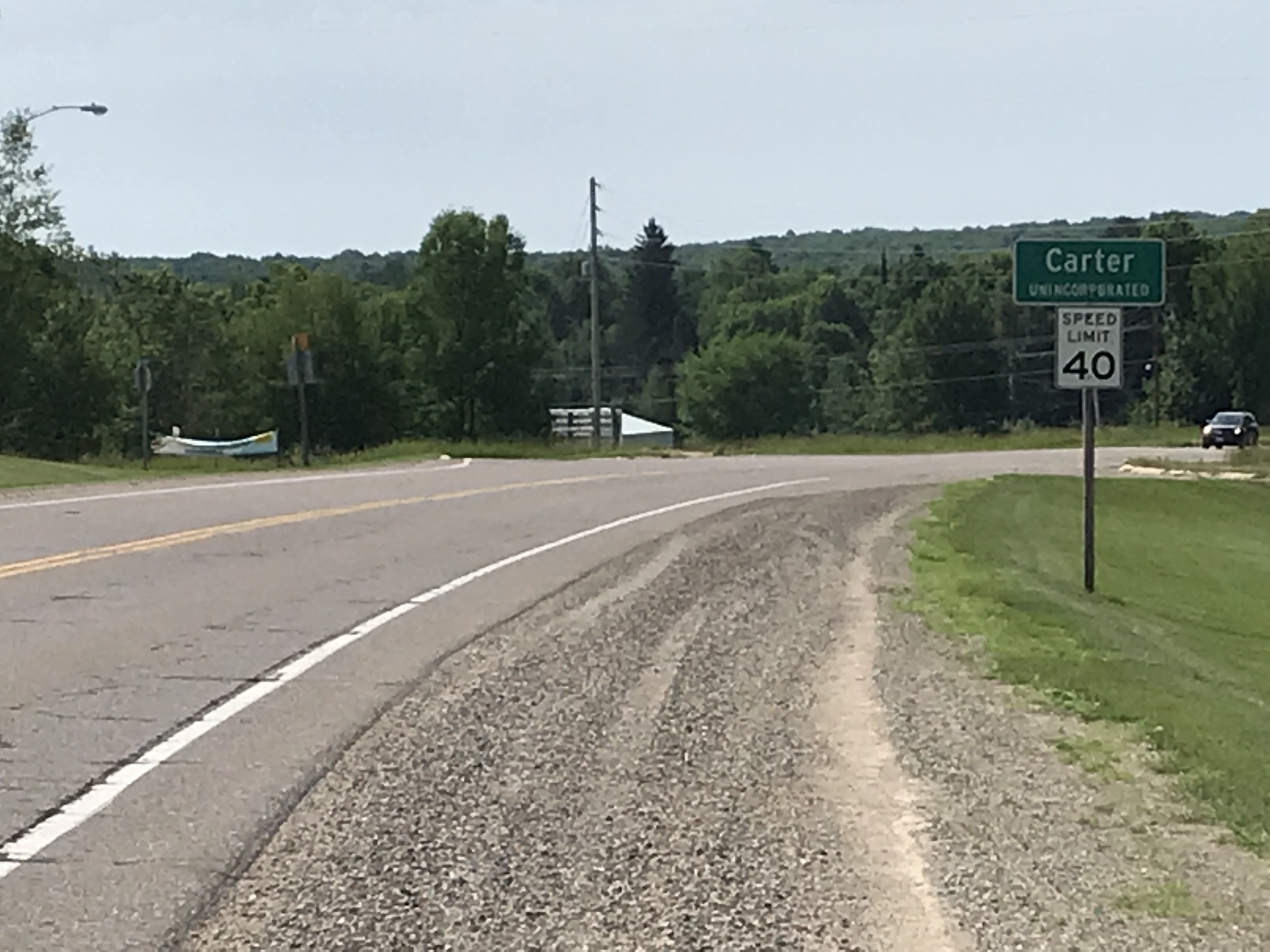 The sign on southbound Wisconsin Highway 32 on the north end of the unincorporated community of Carter, located in southern Forest County, Wisconsin.